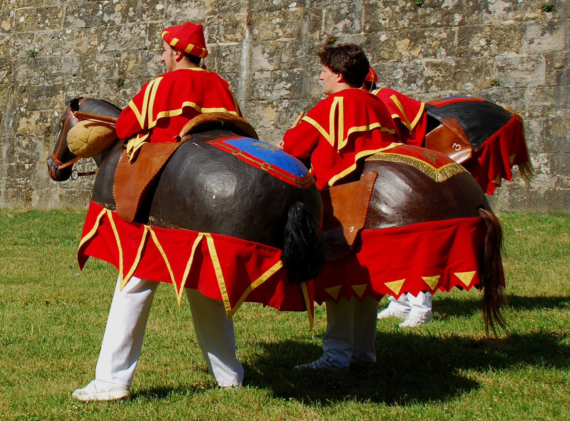 zaldikos pamplona